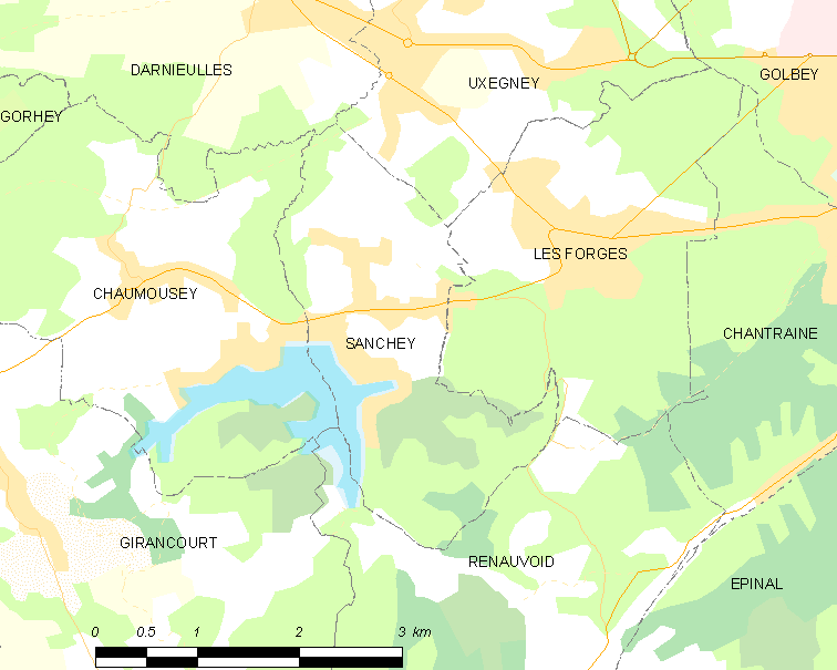 Map of French municipality Sanchey